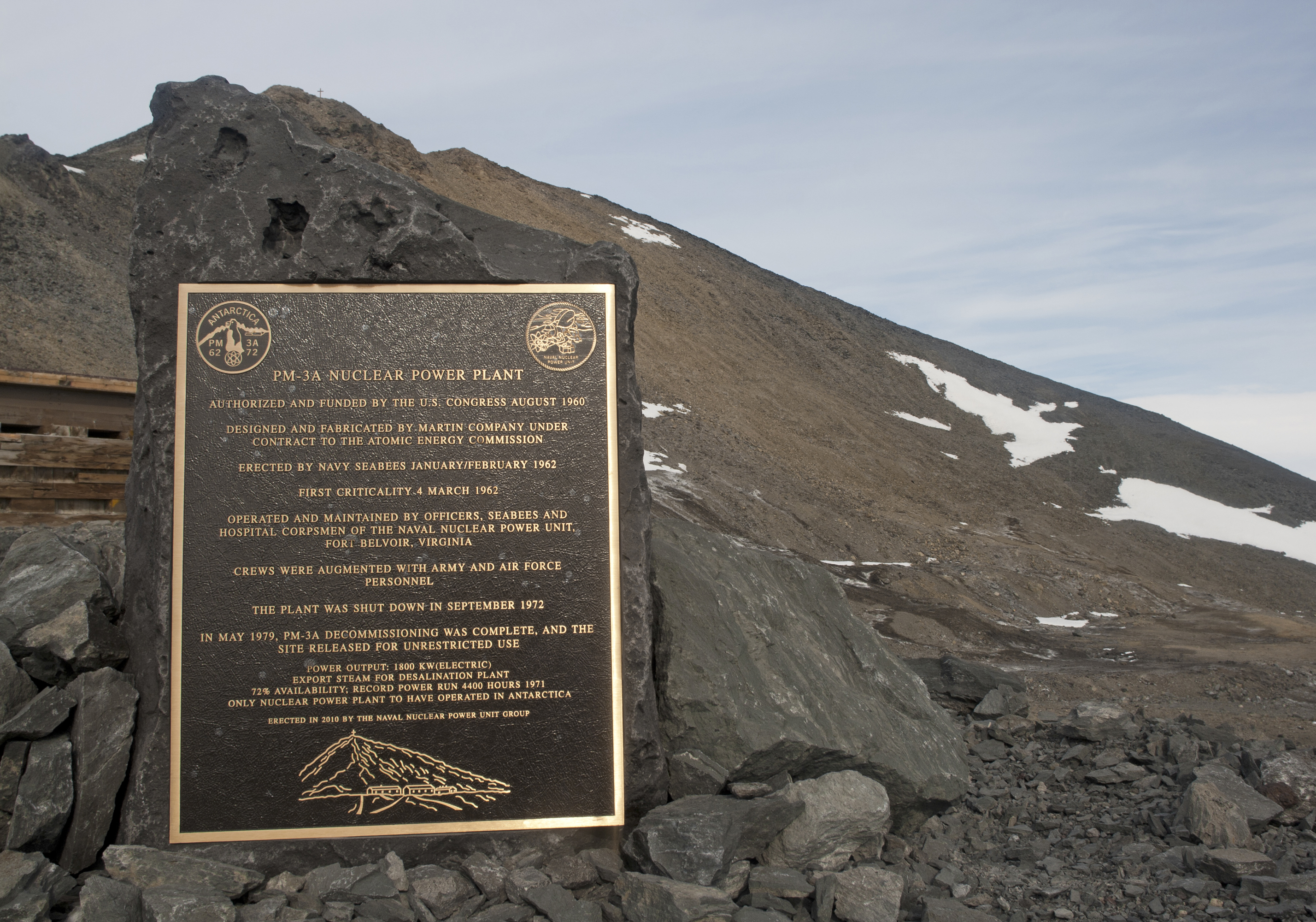 The plaque is approximately 18 x 24 inches, made of bronze and secured to a large vertical rock at McMurdo Station, the former site of the PM-3A nuclear power reactor. It is approximately half way up the west side of Observation Hill. The plaque text details achievements of PM-3A, Antarctica’s first nuclear power plant.